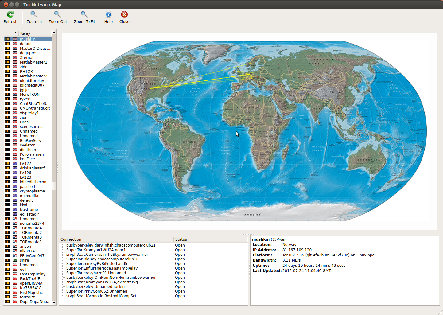 Screenshot of the Tor Network Map in Ubuntu 12.04. Tor Browser Bundle Version 2.2.37-1 - Linux, Unix, BSD (64-Bit).